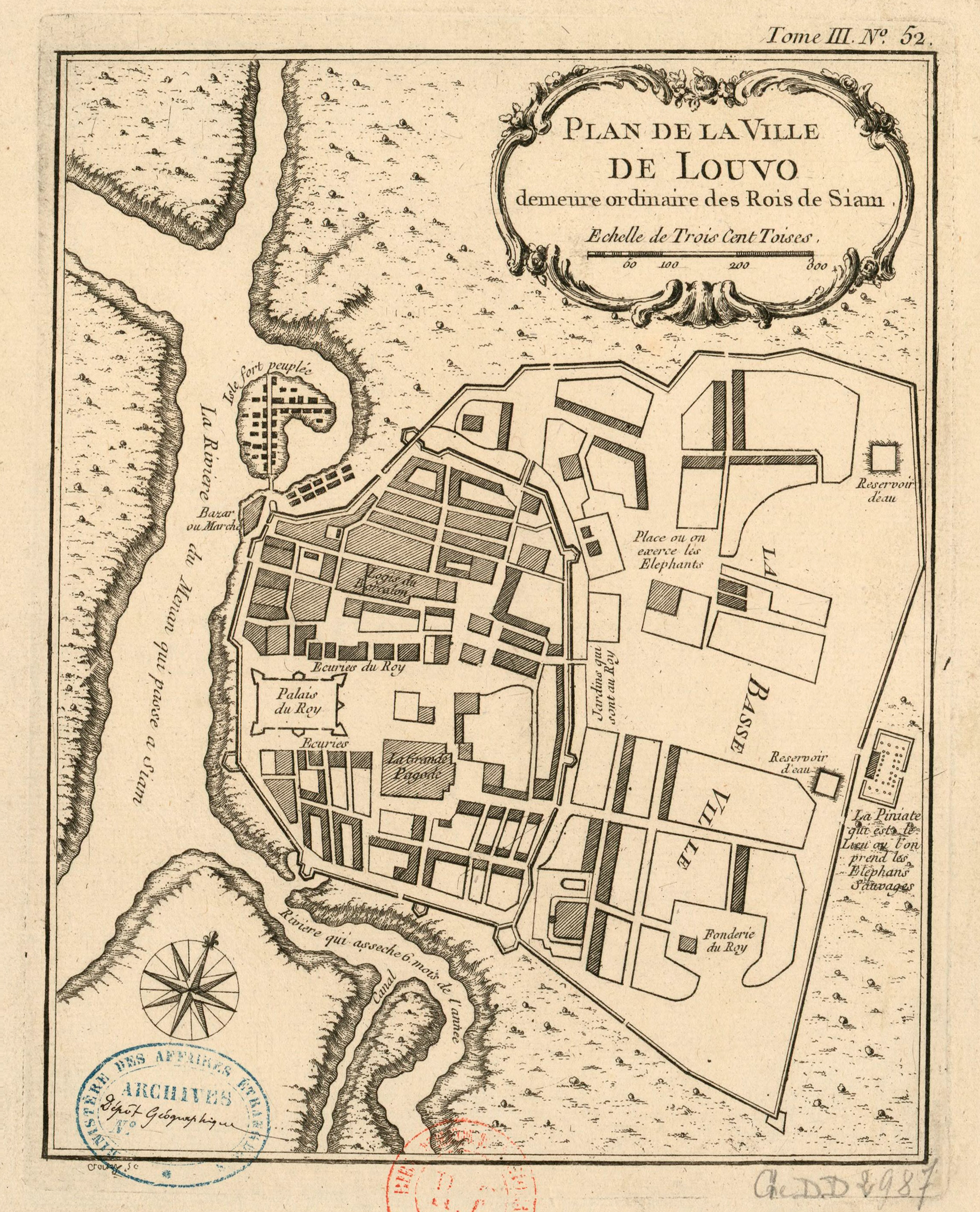 Map of Louvo (Lop Buri) in 1687 by de la Mare, a French engineer in Siam at the time